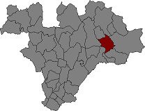 Location of Santa Maria de Palautordera in Vallès Oriental